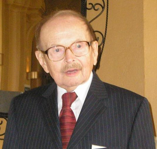 Josef Hendrich *1920